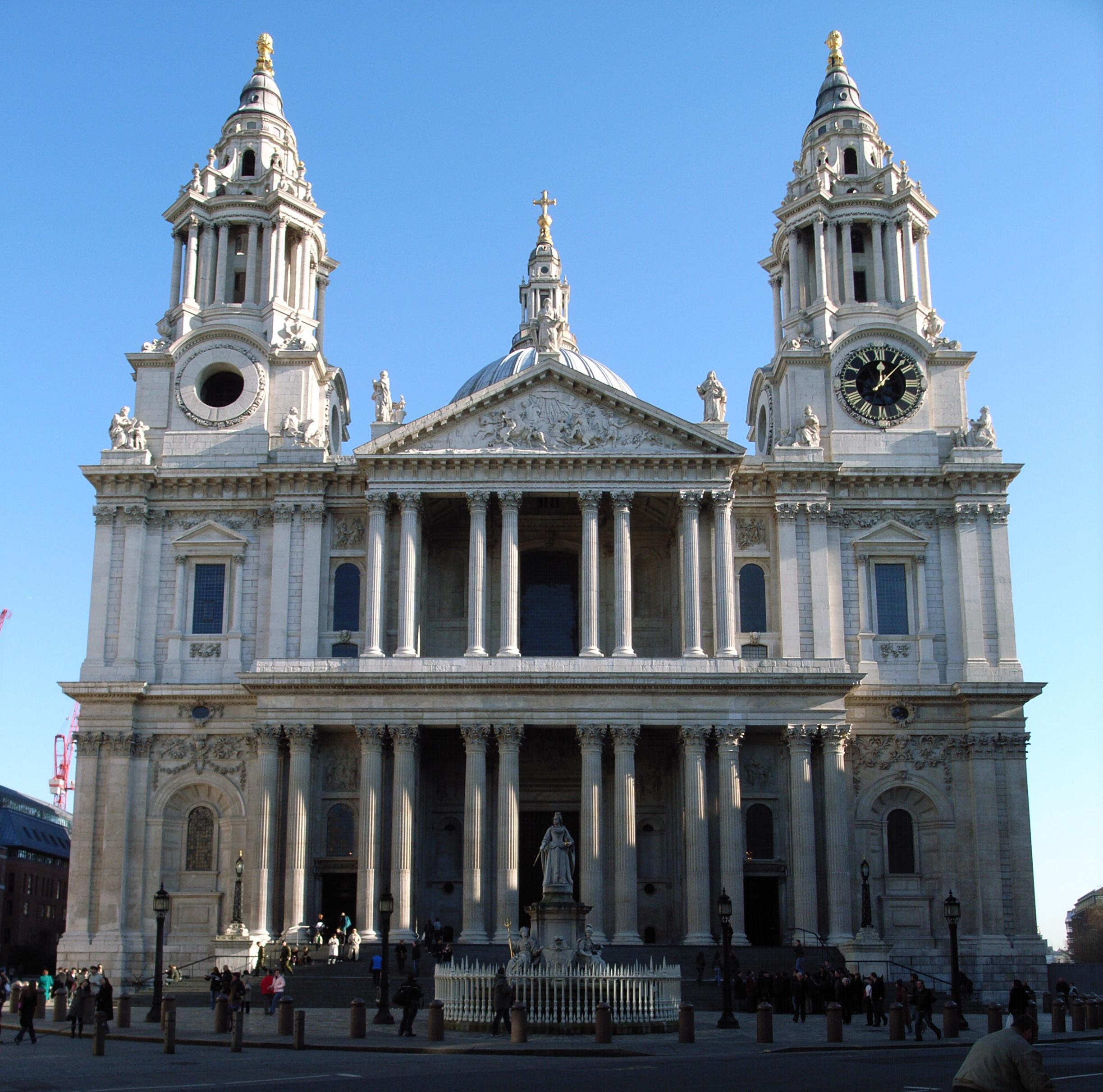 St Paul's Cathedral (1674-1711) by Christopher Wren